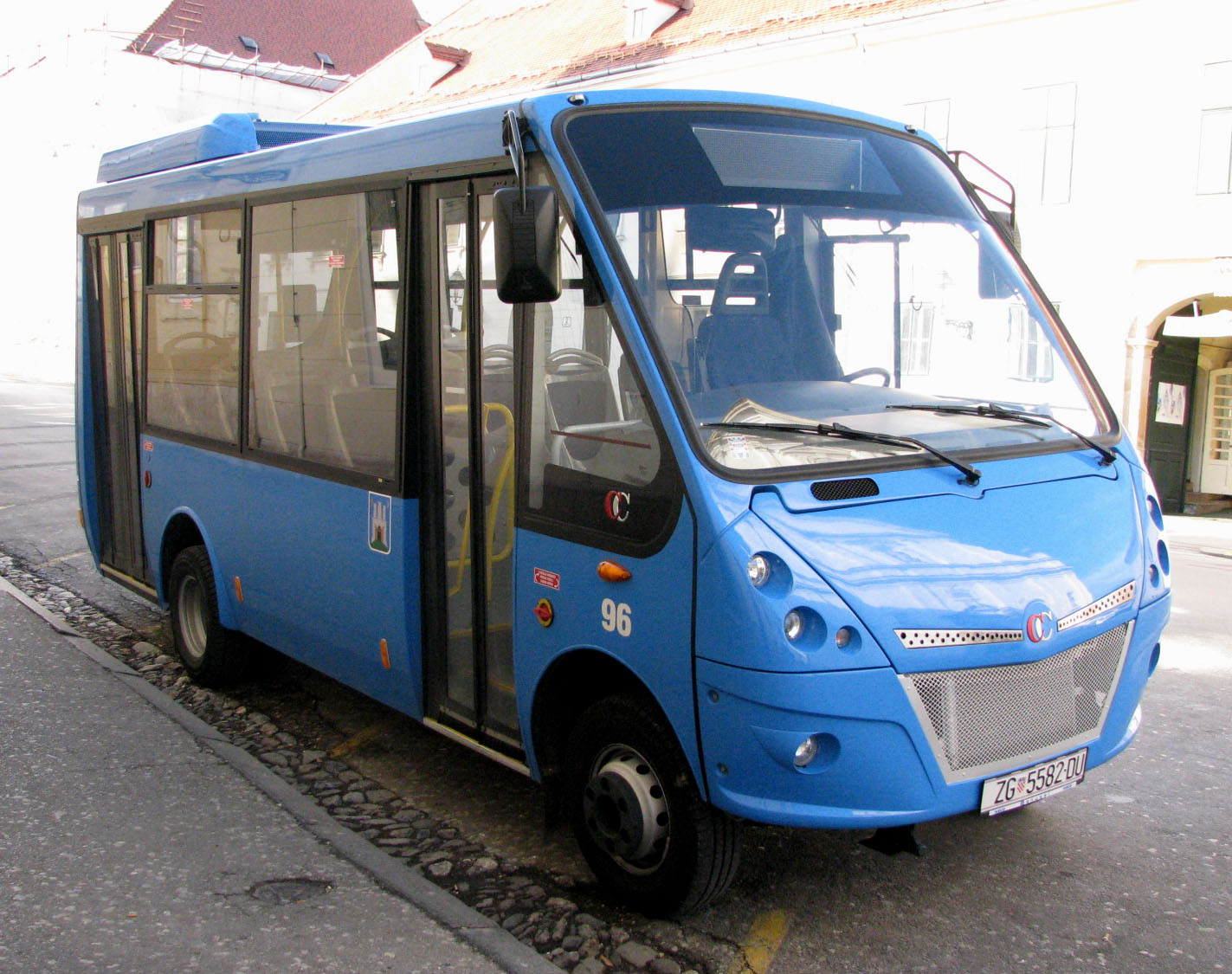 Irisbus Cacciamali Urby minibus (#96) in Zagreb, Croatia. Built 2009.